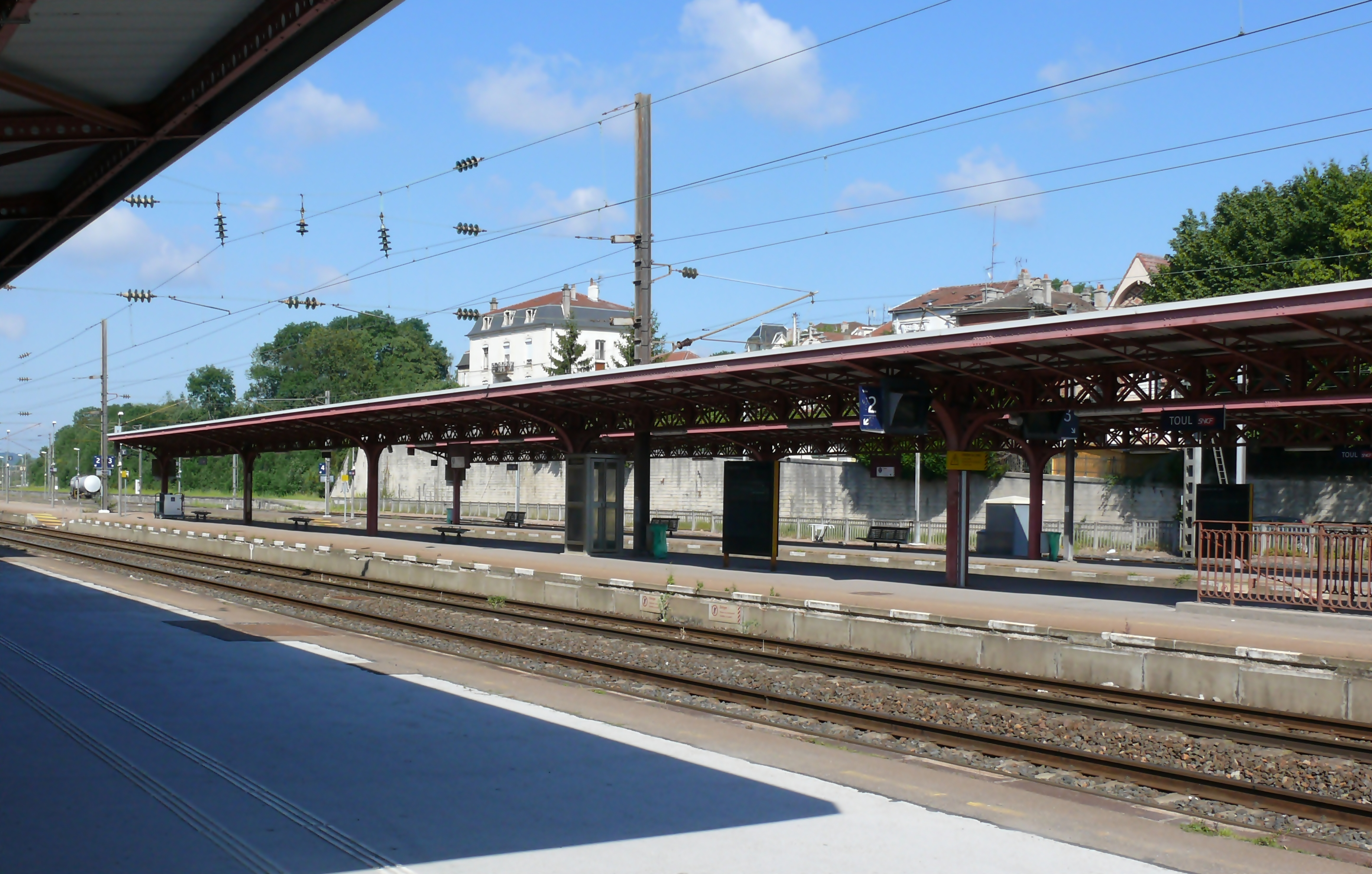 SNCF Toul station, in Meurthe-et-Moselle, France.